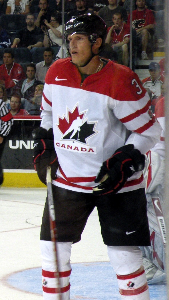 Ice hockey defenceman Dion Phaneuf in action during Hockey Canada's Red-White game at pre-Olympic camp in Calgary, Alberta.